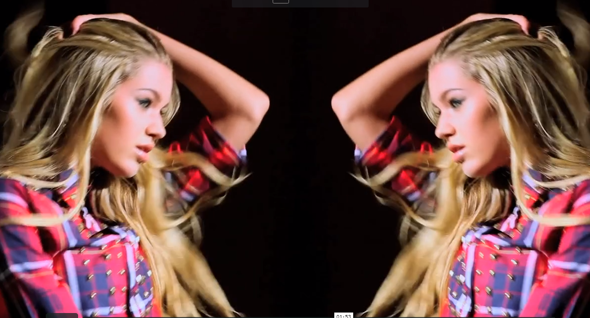 This is from an event in 2012 sponsored by Missguided and featuring its owner Nitin Passi in the video